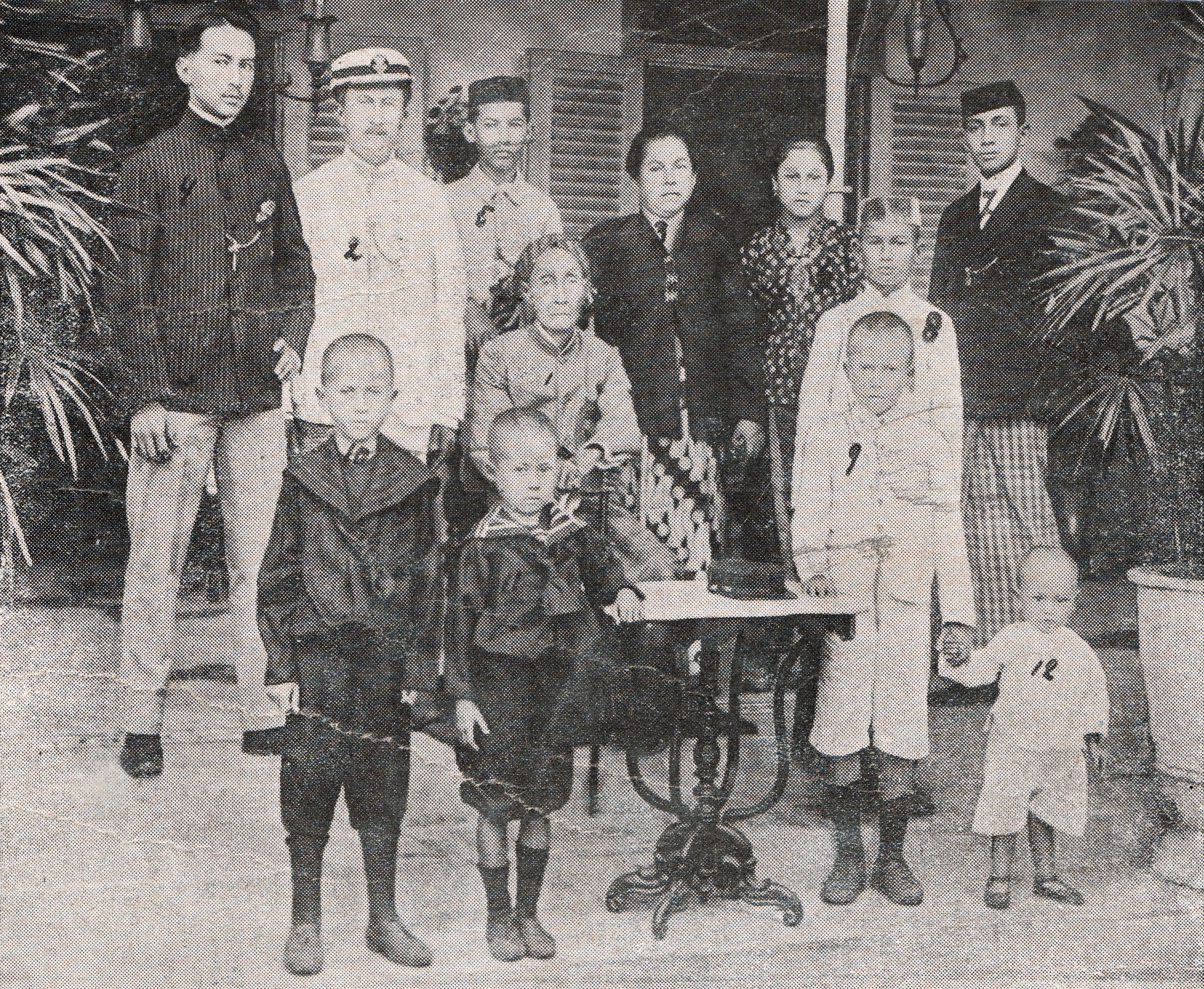 Family of Mohammad Hoesni Thamrin, an Indonesian politician. No. 1 : Djaksa Thabri, "grandfather" (raised M. Thabri Thamrin as his father, but was actually M. Thabri Thamrin's uncle); No. 2 . Moehammad Thabri Thamrin, father. No. 3 : mother. No. 4 : Ma'moen Thamrin, brother; No. 5: Mohammad Hoesni Thamrin. No. 6 : sister. No. 7 : in-law. No. 8 : Hadji Abdillah, brother, No. 9 : Abdulfatah Thamrin, brother. No. 10: Mansjoer Thamrin. No. 11 : R. Ismail; No. 12: Abdoelazis Martam, nephew.